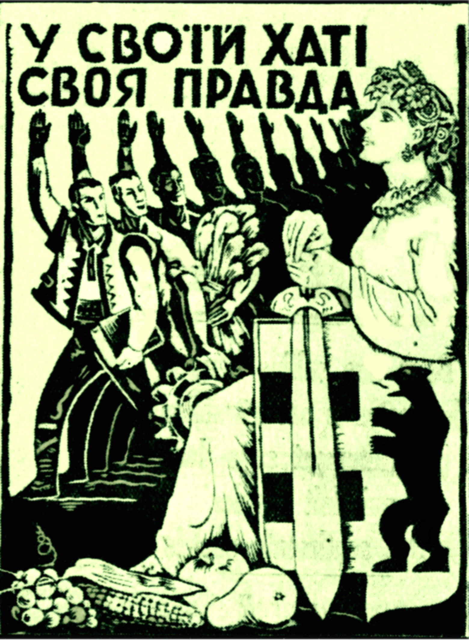 Propaganda poster of Carpatho-Ukraine, an autonomous (later unrecognized independent) republic proclaimed by the Ukrainians in Czechoslovakia. Published by the radical-right "Ukrainian National Party", an avatar of the Carpathian Sich under Dmytro Klempus (Klympush), it was republished by Paris-Soir.A vinok-ed woman personifying Carpatho-Ukraine, holding a sword stamped with the tryzub and a shield bearing the national arms (a bear and fesses), being saluted by young men in Ukrainian national costume. The slogan reads: У своїй хаті своя правда ("The house has its own truth"), loosely adapted from Taras Shevchenko's "To My Fellow Countrymen": "In one's own house,— one's own truth".